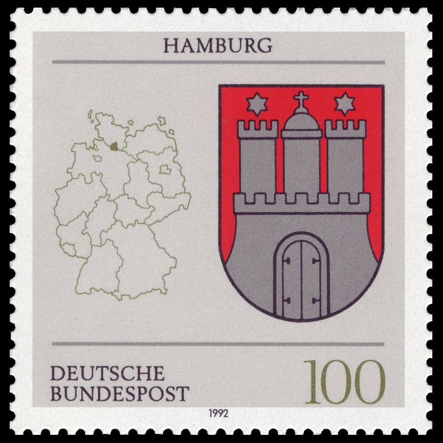 Coats of arms of the 16 states of Germany Ausgabepreis: 100 Pfennig First Day of Issue / Erstausgabetag: 10. September 1992 Michel-Katalog-Nr: 1591 Designer: Jünger